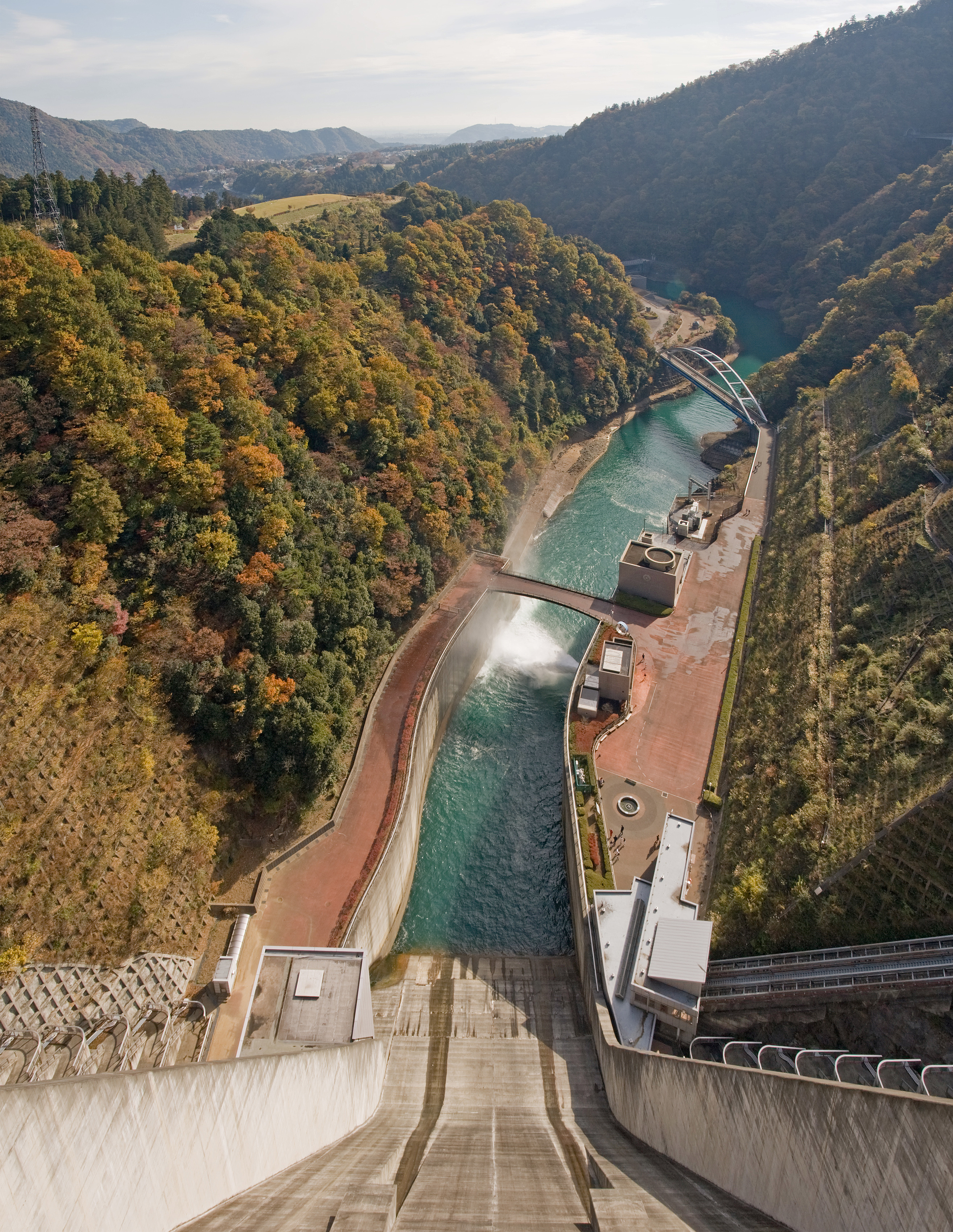 Lake Ishigoya and Ishigoya Dam as seen from the top of the Miyagase Dam, Kanagawa, Japan.